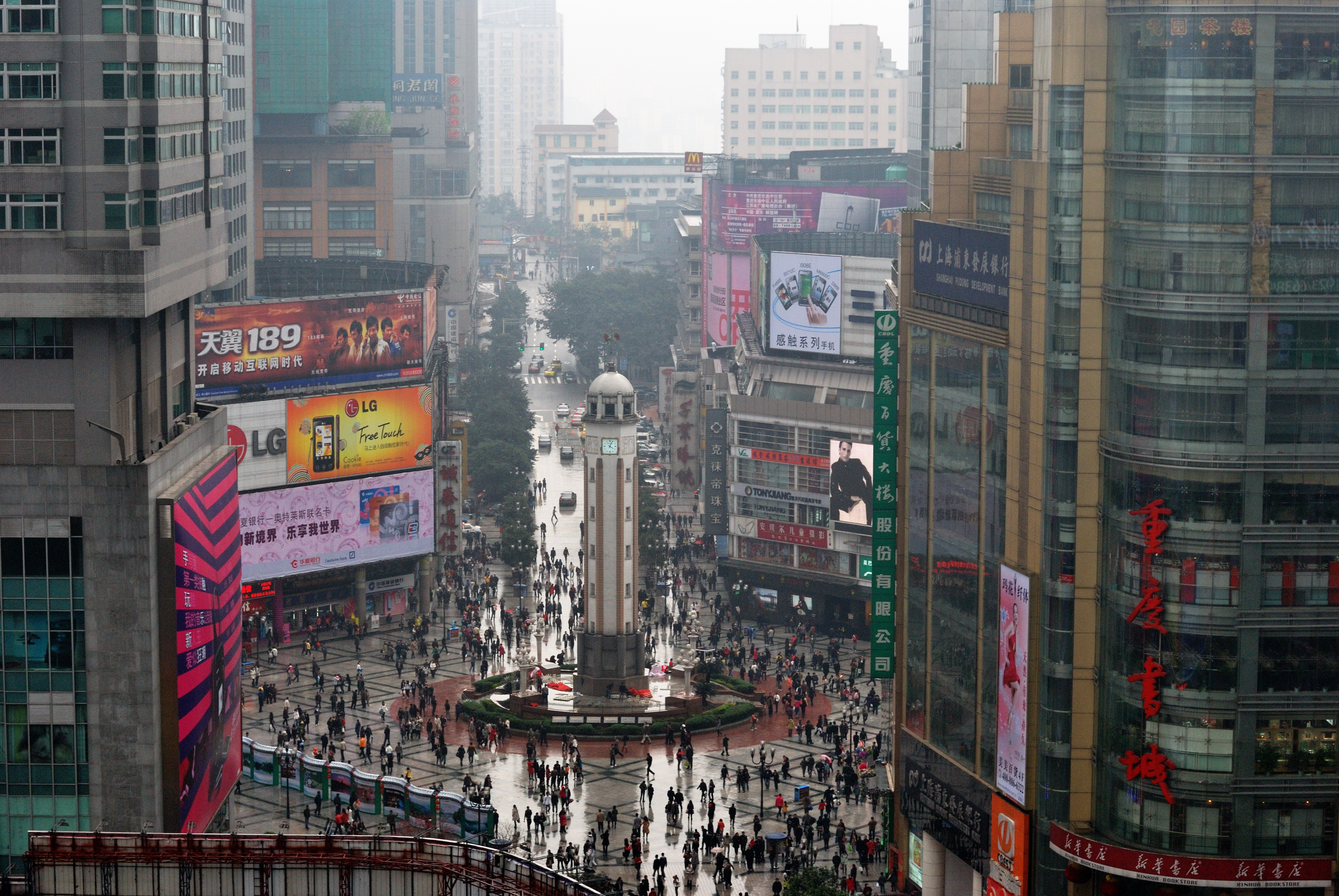 Unknown